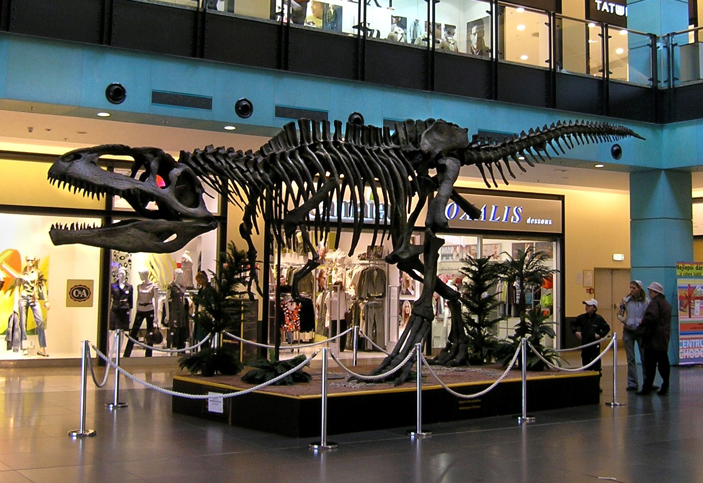 Interior of Shopping centre Chodov with a dinosaur exhibition, Prague